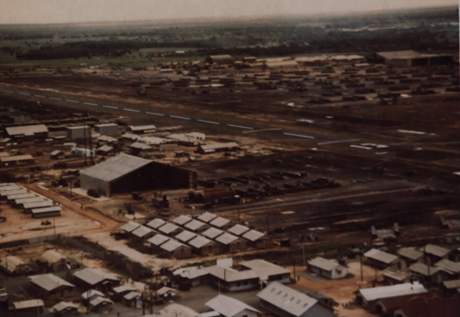 Aerial view of an aircraft maintenance hanger being erected at Phu Loi by the 34th Engineer Battalion.